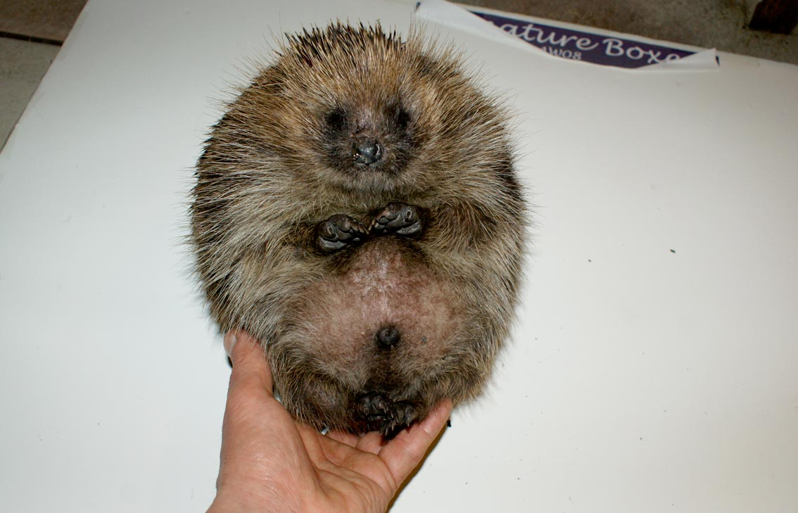 Hedgehog suffering from Balloony after some deflating